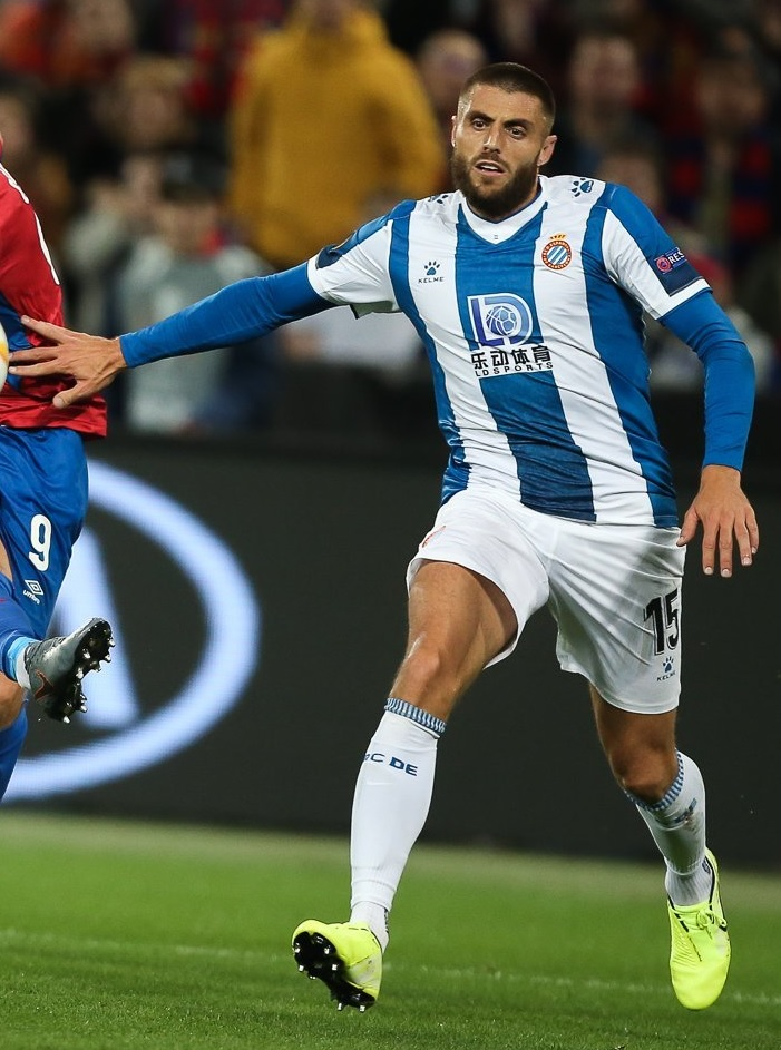 David López with RCD Espanyol in an Europa League game against PFC CSKA Moscow.